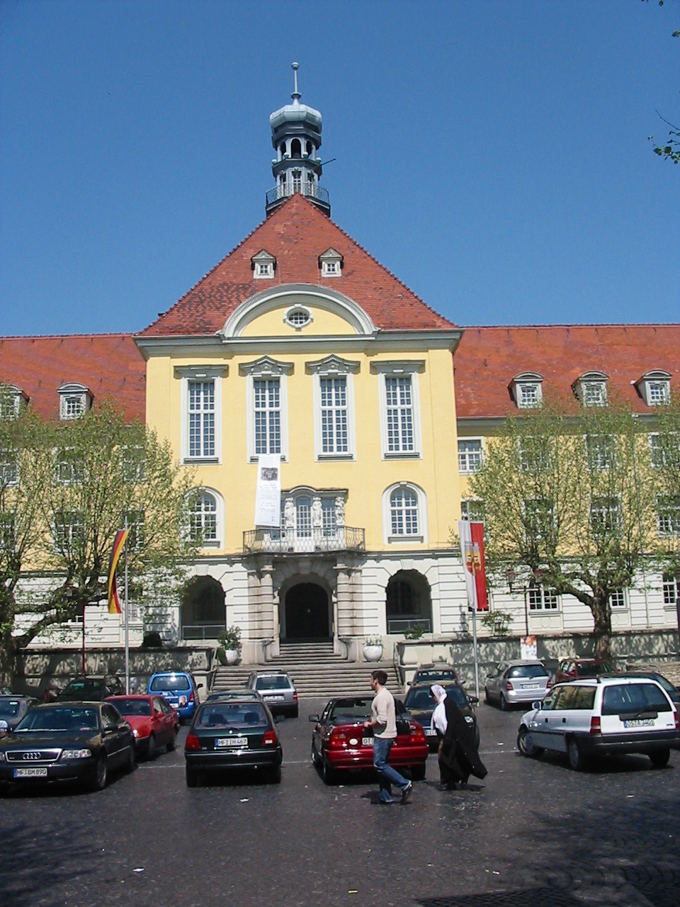 Town hall of Herford, District of Herford, North Rhine-Westphalia, Germany.